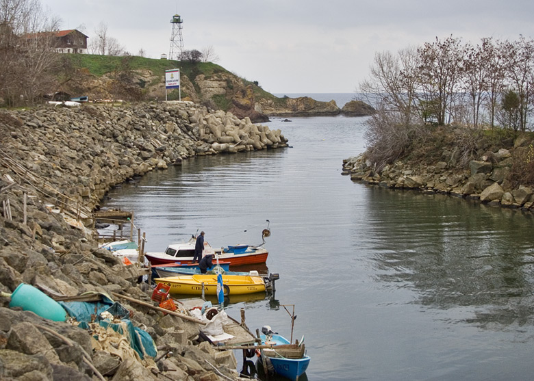 The outflow of river Rezvaya, the border of Bulgaria and Turkey